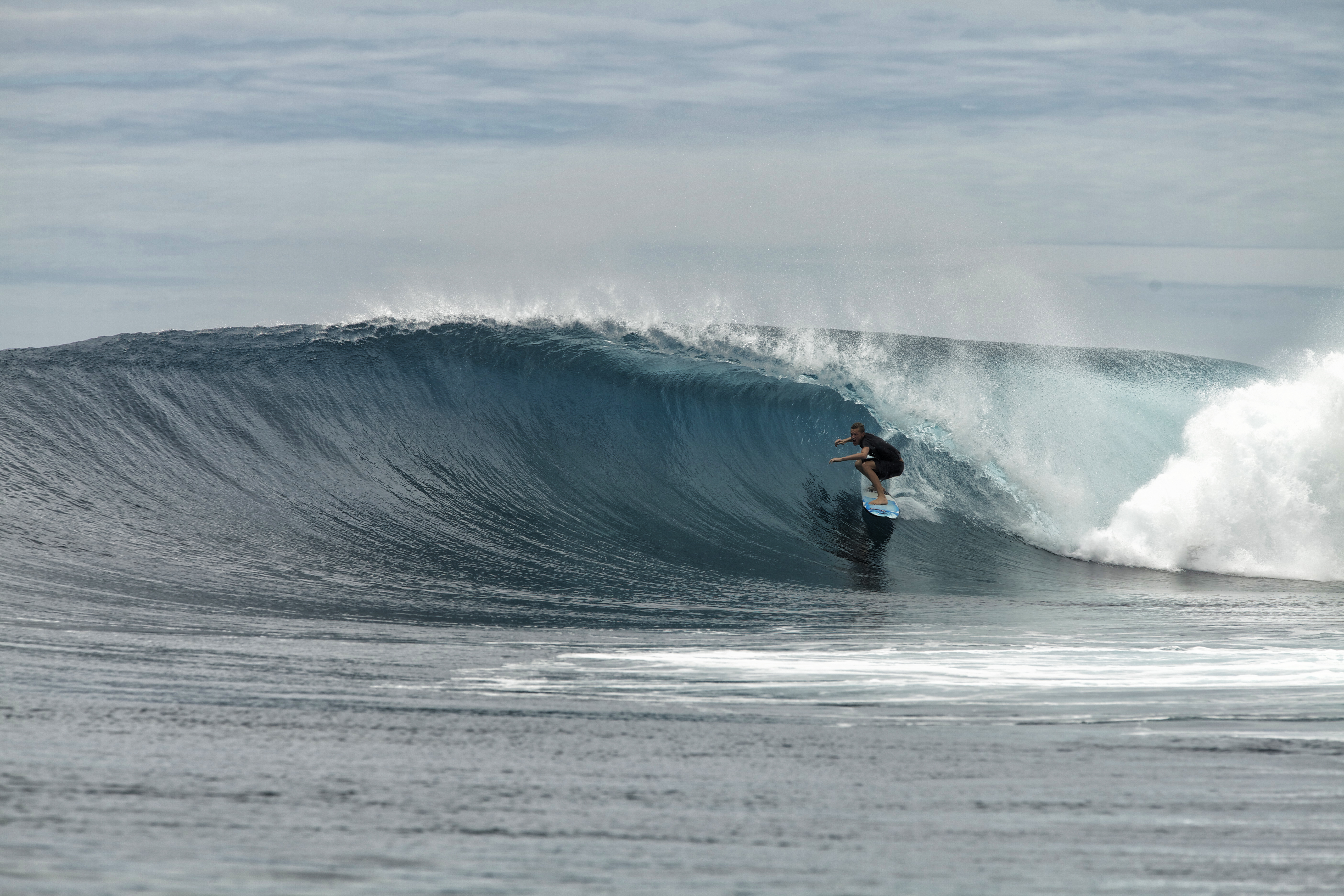 Surf break in the Mentawai Islands, Sumatra, Indonesia known as Lance's Right, after Lance King